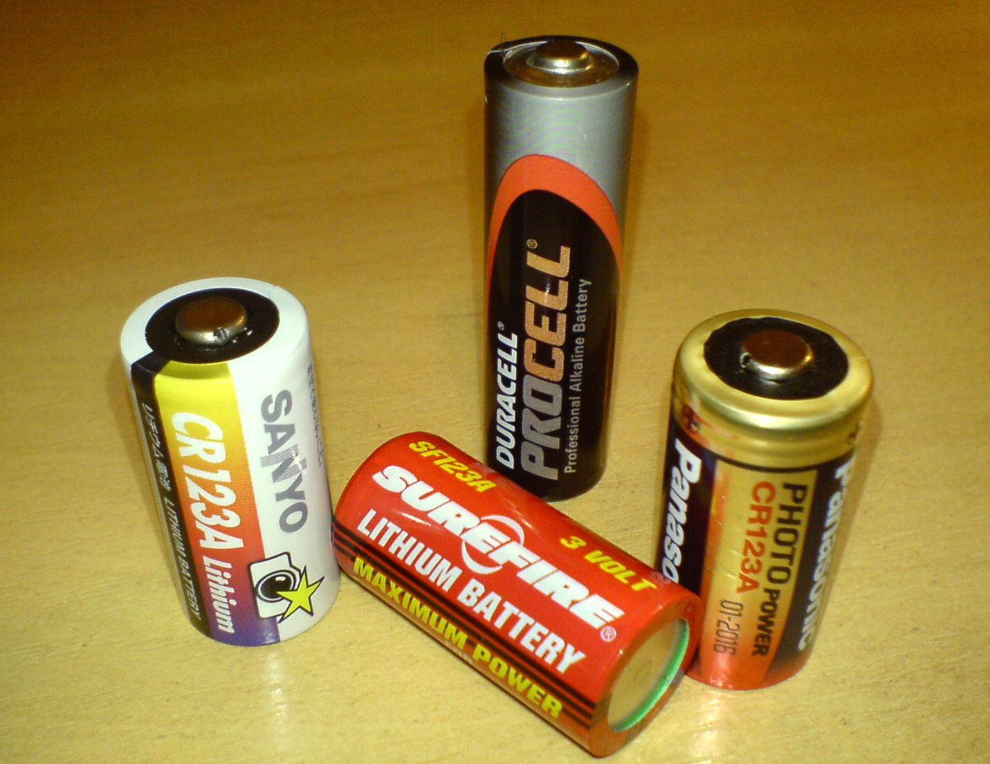 Three CR123 battery and AA for comparison